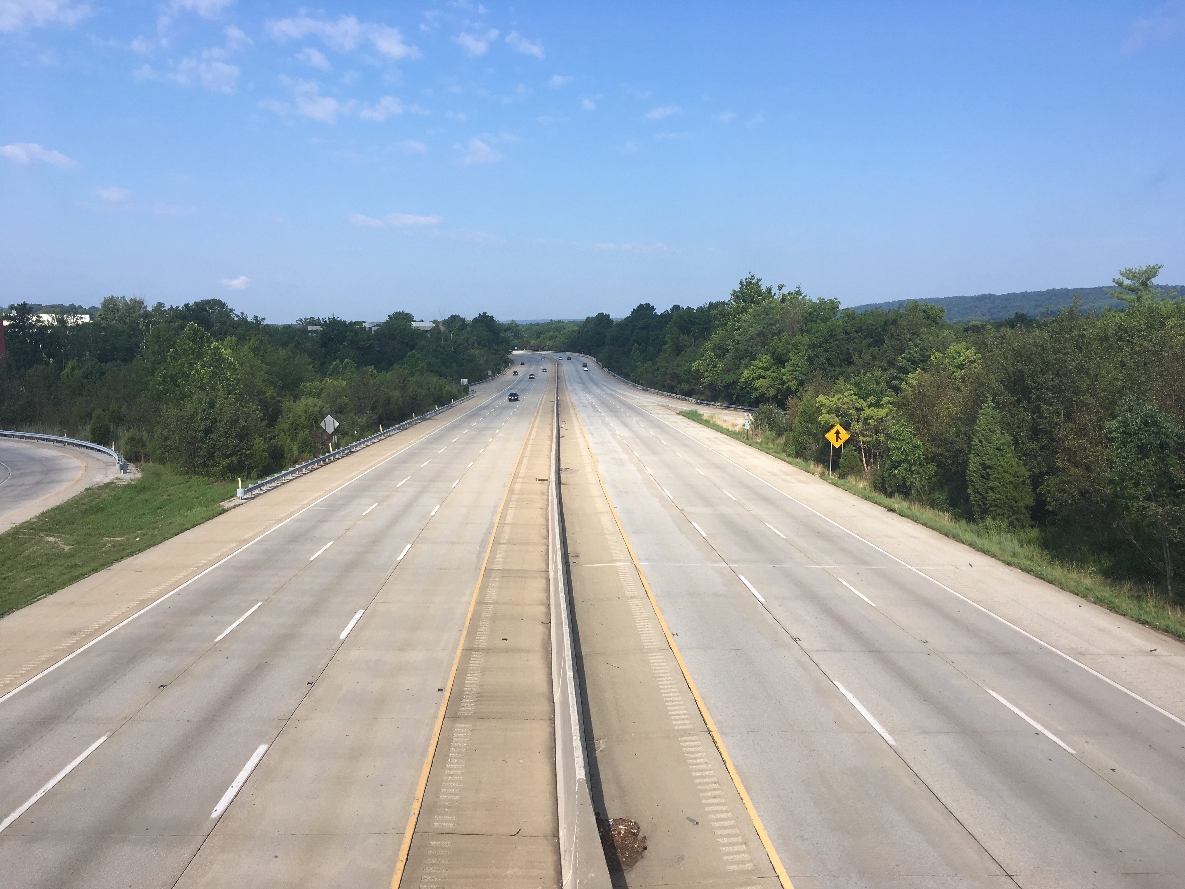 Southbound U.S. Route 202 from the Chesterbrook Boulevard overpass in Chesterbrook, Pennsylvania.